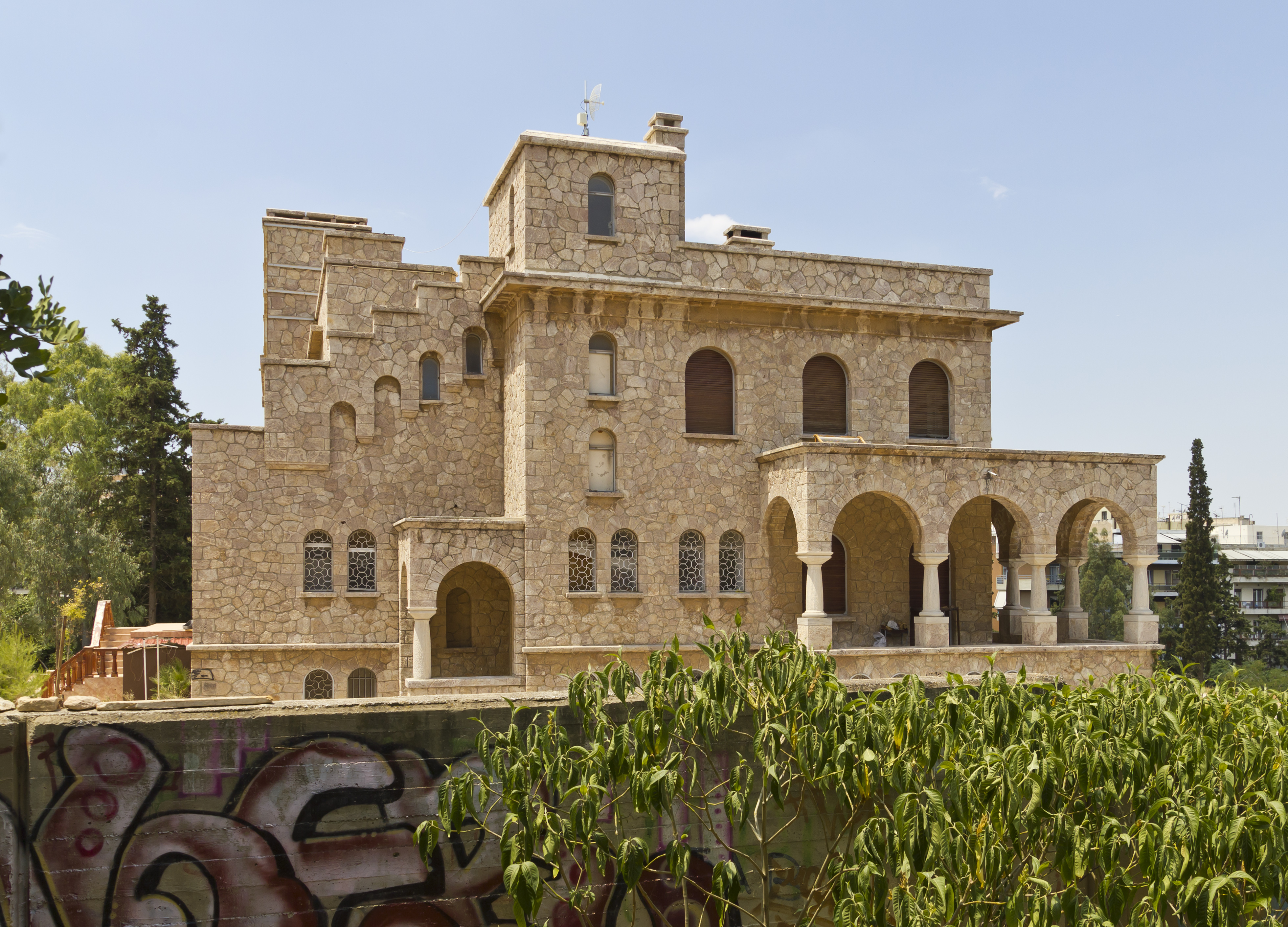 19th century manor (Villa Zografou) in Zografou (Attica, Greece)